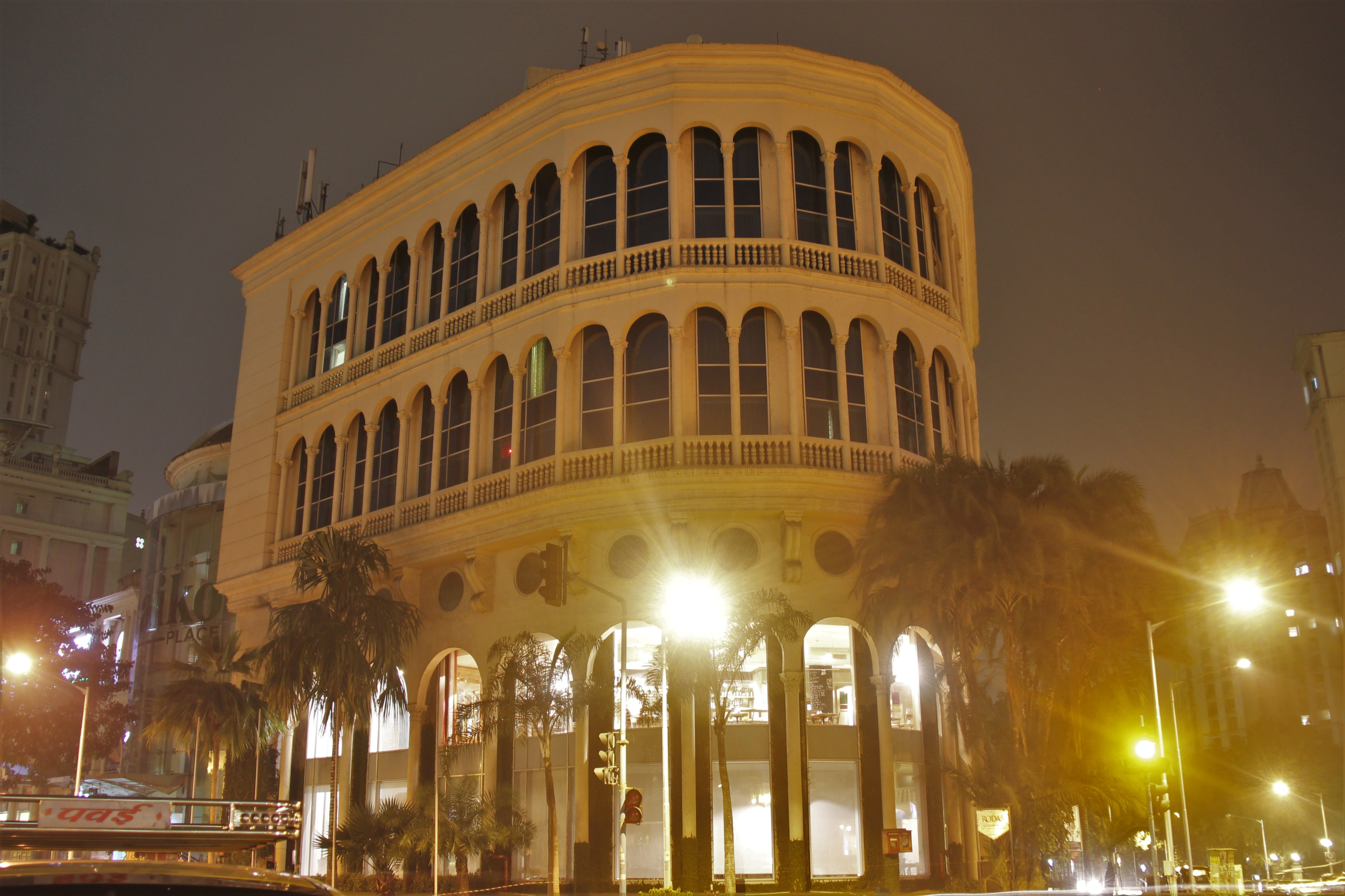 Hotel Rodas in Hiranandani, Powai